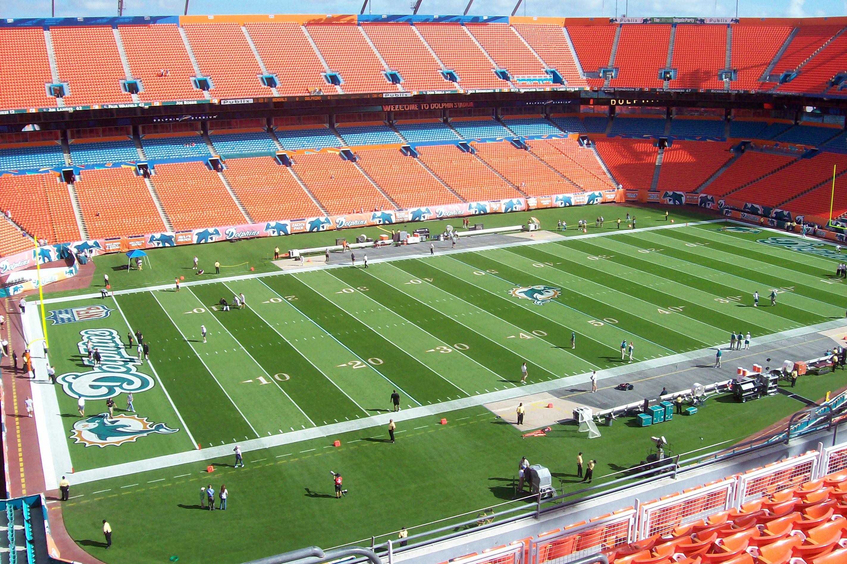 The interior of Dolphin Stadium in Miami, Florida taken before the Bengals/Dolphins game on December 30th, 2007.